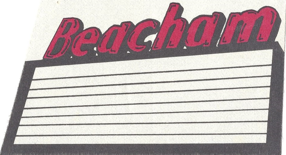 This is a scan of a early 1990s sticker with the Beacham Theatre logo. The sticker was used for VIP access to the balcony for an AAHZ "Late Night" event circa 1993.